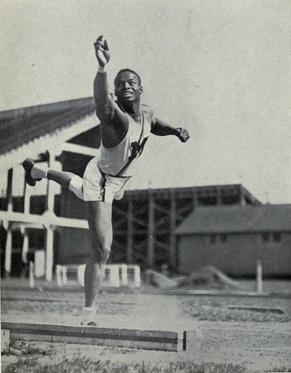 Photograph of William Watson This work is in the public domain because it was published in the United States between 1925 and 1963 and although there may or may not have been a copyright notice, the copyright was not renewed. Unless its author has been dead for the required period, it is copyrighted in the countries or areas that do not apply the rule of the shorter term for US works, such as Canada (50 pma), Mainland China (50 pma, not Hong Kong or Macao), Germany (70 pma), Mexico (100 pma), Switzerland (70 pma), and other countries with individual treaties. See Commons:Hirtle chart for further explanation. This work is in the public domain in the United States because it was published in the United States between 1925 and 1977, inclusive, without a copyright notice. See Commons:Hirtle chart for further explanation. Note that it may still be copyrighted in jurisdictions that do not apply the rule of the shorter term for US works (depending on the date of the author's death), such as Canada (50 p.m.a.), Mainland China (50 p.m.a., not Hong Kong or Macao), Germany (70 p.m.a.), Mexico (100 p.m.a.), Switzerland (70 p.m.a.), and other countries with individual treaties.